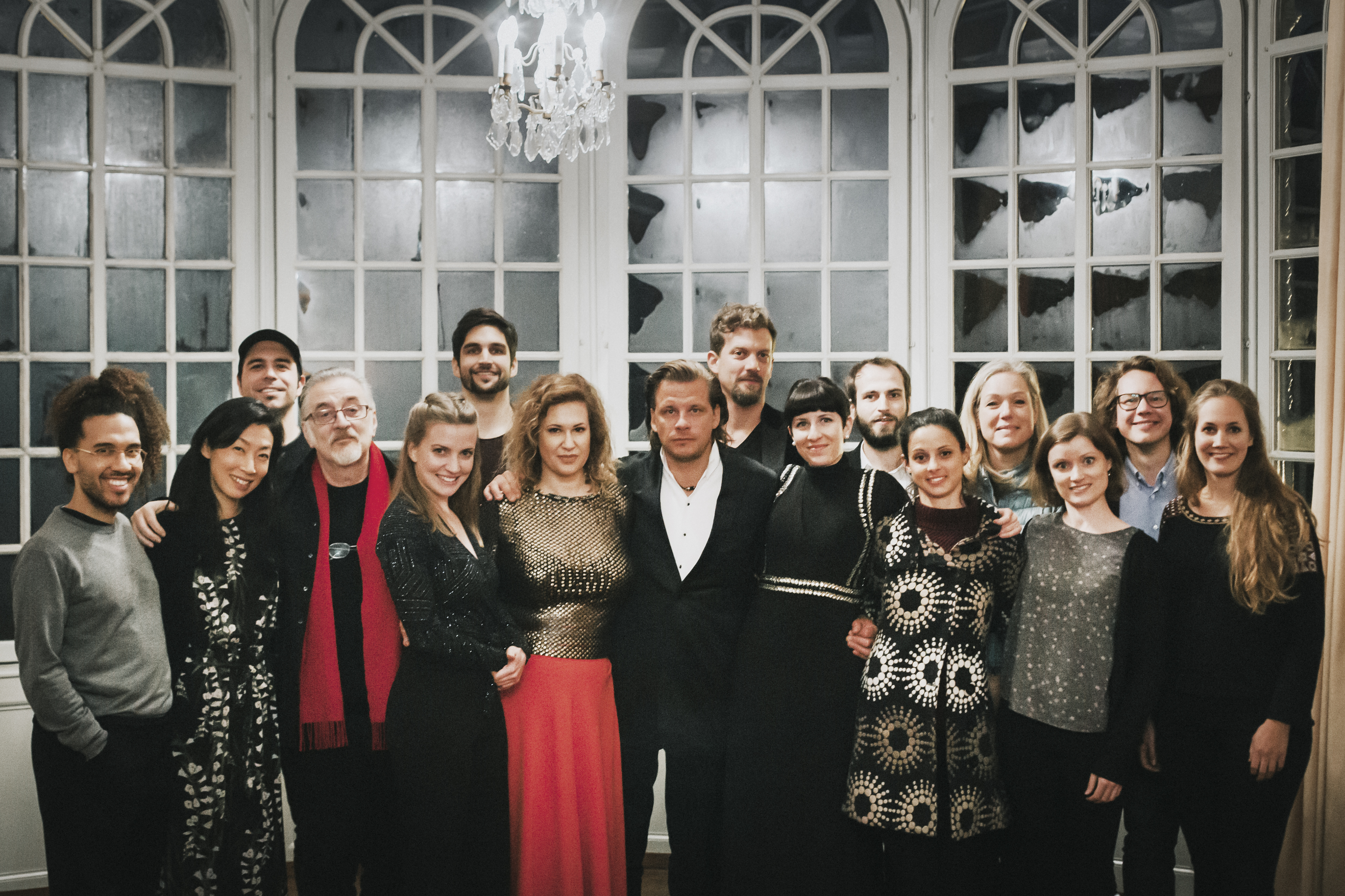 The musicians of the 11th edition of the GAIA Music Festival, Oberhofen From left: James Oesi, Blythe Teh Engstroem, David Cristóbal Litago, Vladimir Mendelssohn, Dóra Kokas, Jonas Tschanz, Gwendolyn Masin, Kirill Troussov, Simon Bucher, Stephanie Szanto, Christoph Croisé, Tabea Haas, Isabelle van Keulen, Henriette Jensen, Hannes Minnaar, Marijke Schröer